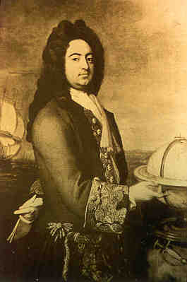 Thought to be a painting of Francis Nicholson(1655-1728), English/British colonial governor or lieutenant governor of several North American provinces.